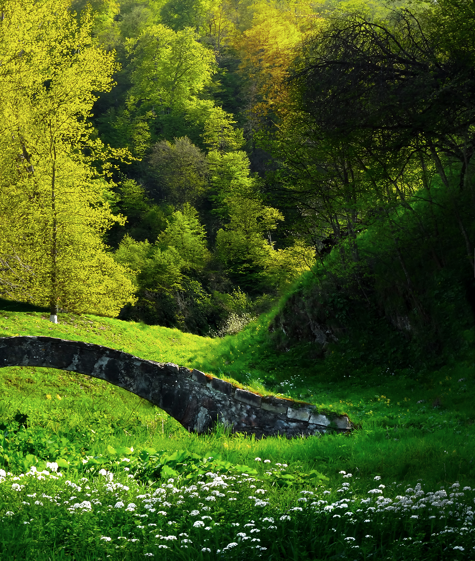 Goygol National Park, Ganja, Azerbaijan